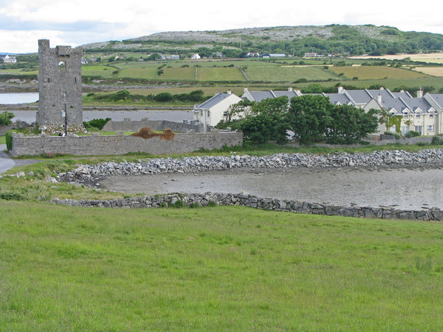 Muckinish Castle encroached upon by modern homes Photo acquired from the roadway edge.